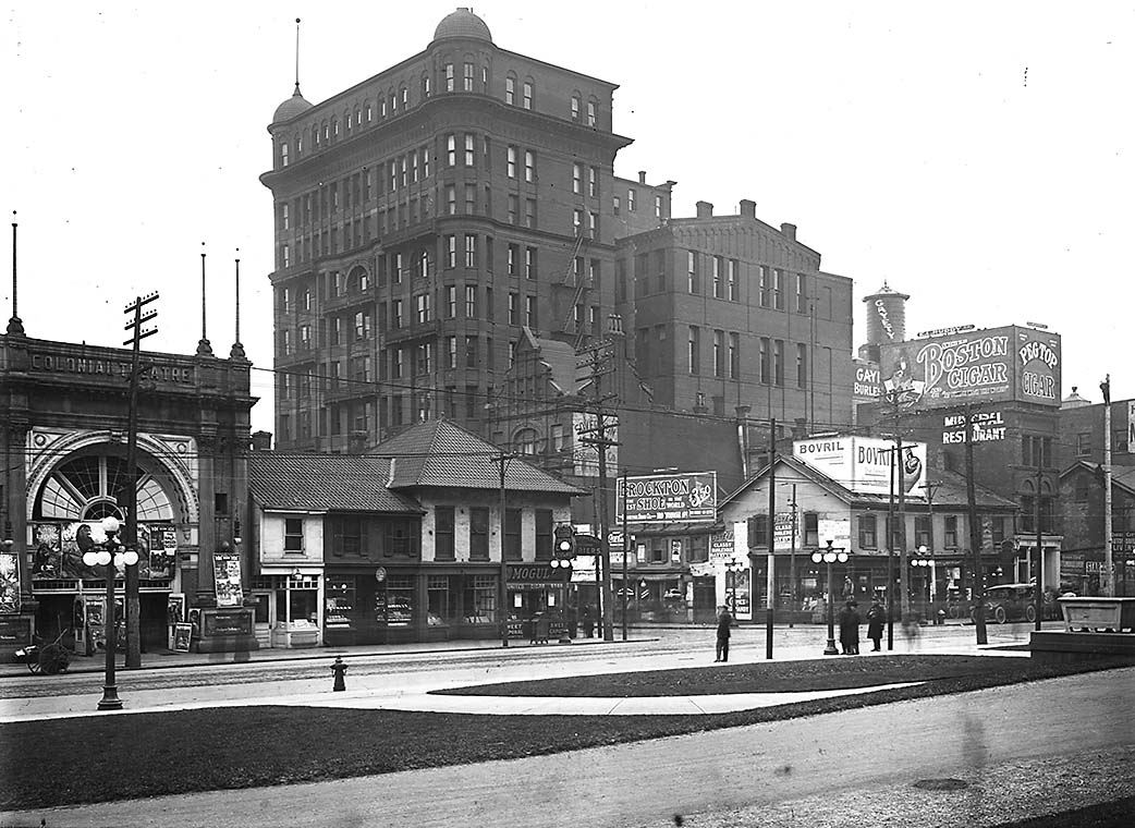 Looking south west from Old City Hall Queen and Bay Street, Toronto, Ontario, Canada. The movie theatre is now the location of the Bay Tower.